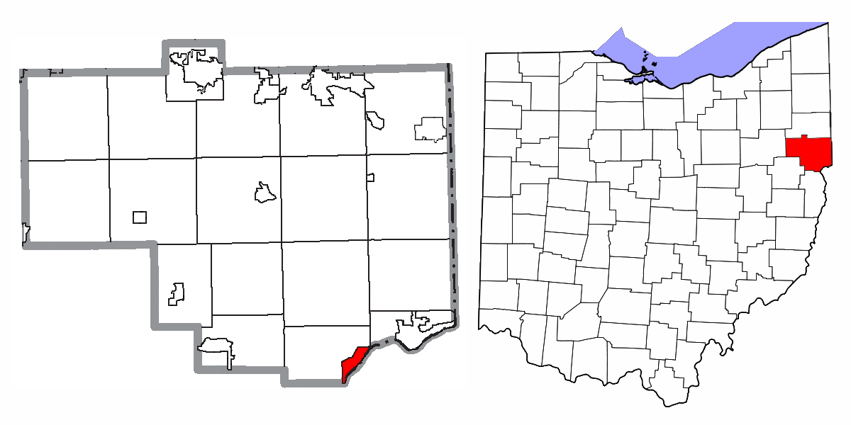 Map highlighting Village of Wellsville, Columbiana County, Ohio.